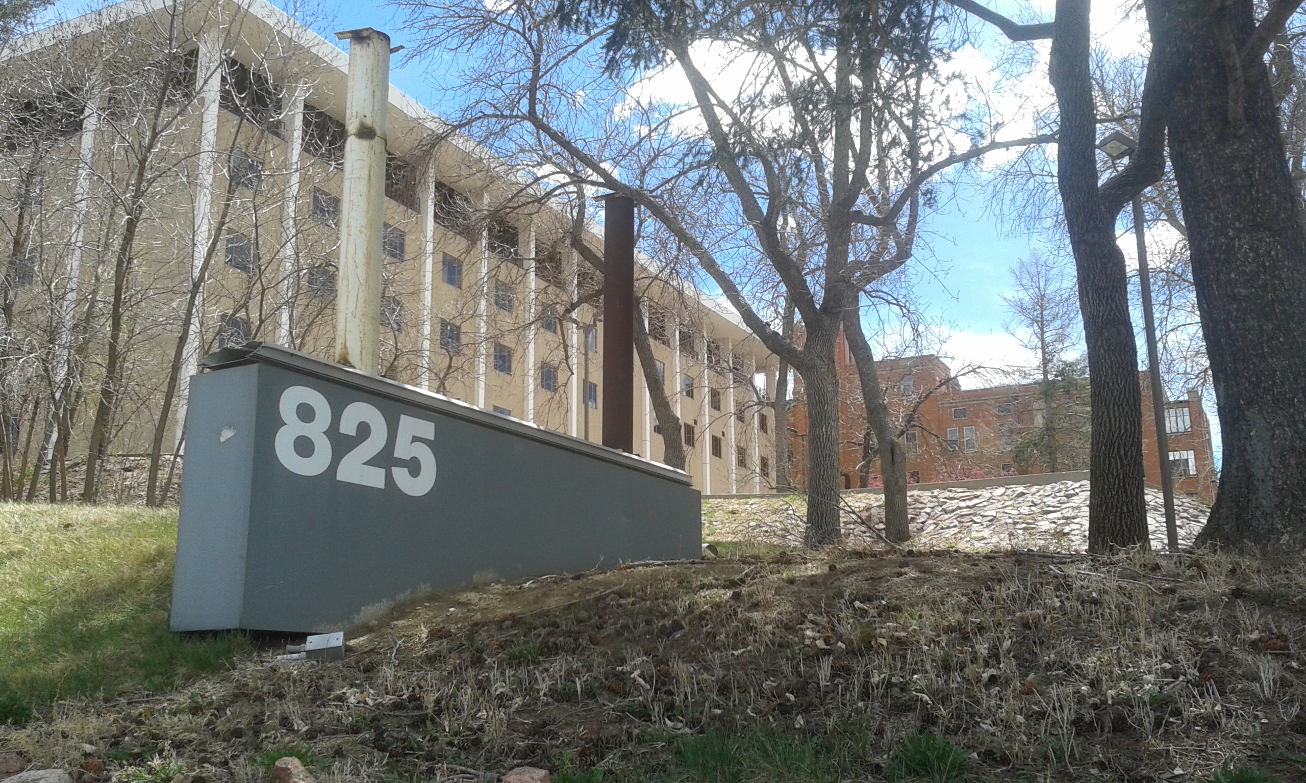 St. Francis Health Center address number sign